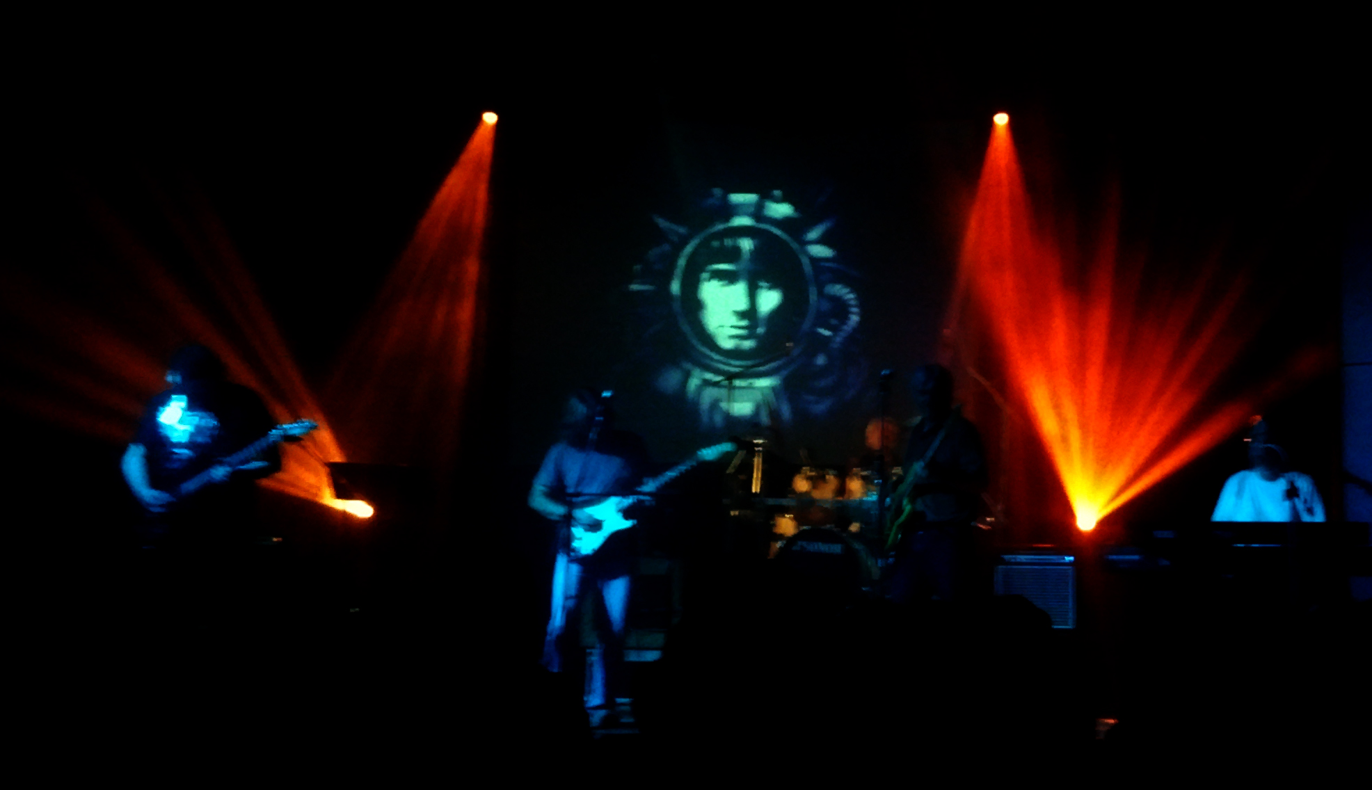 Progres 2 - Dialog s vesmírem, Semilasso - 3.4.2012 Česky: Progres 2 - Dialog s vesmírem, Semilasso - 3.4.2012